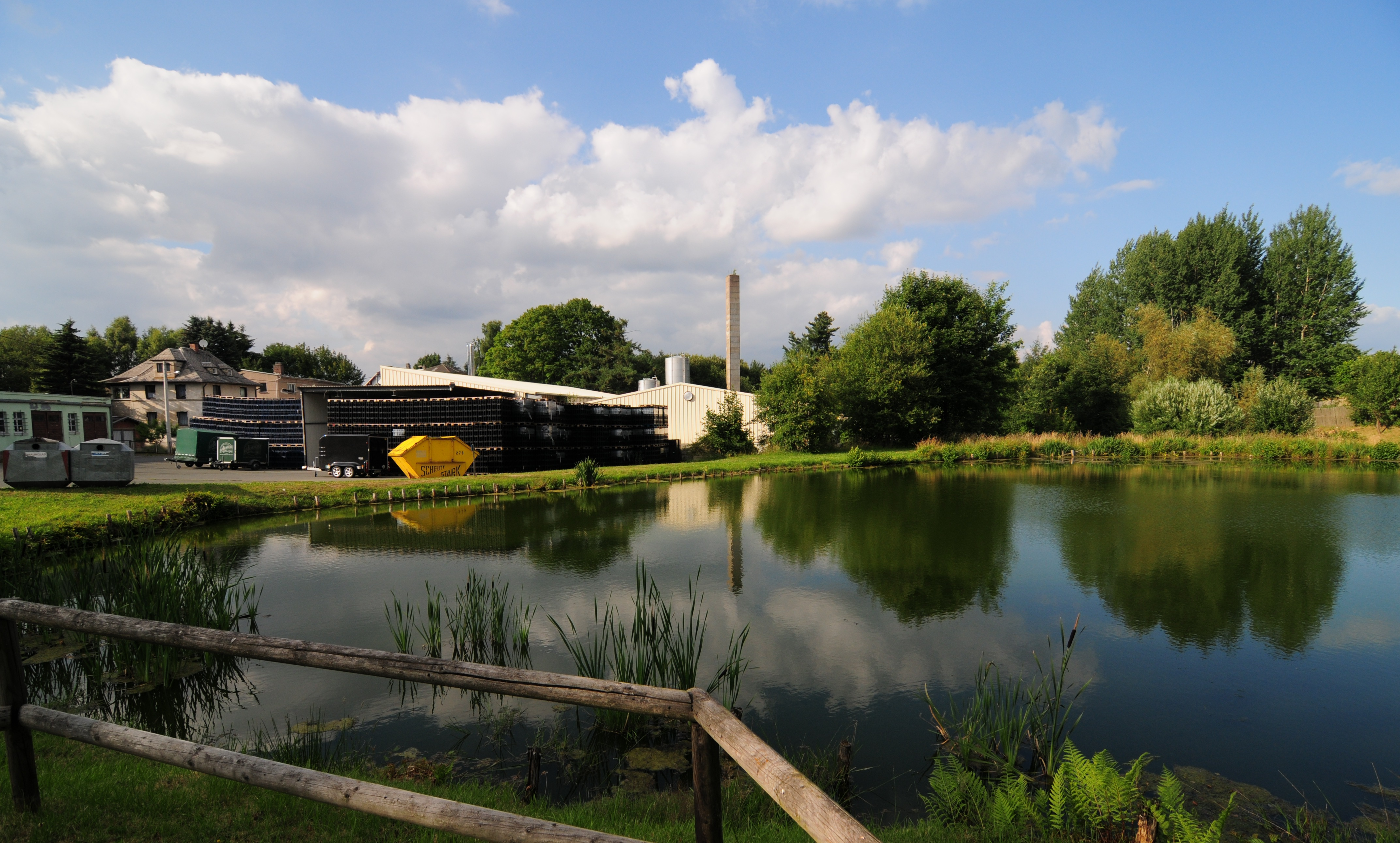 Bad Brambach, a pond and the buildings of the formerly mineral water factory in Oberbrambach (district Vogtlandkreis, Free State of Saxony, Germany)